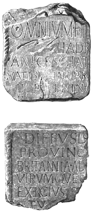 Dedication to Hadrian, buff sandstone, two fragments. The Saxon builders, in reusing, placed it face downwards and carved the arms of a cross bordered by a cable mould on its lower edge. Found 1782 in restoring Jarrow Church. Now in the Great North Museum